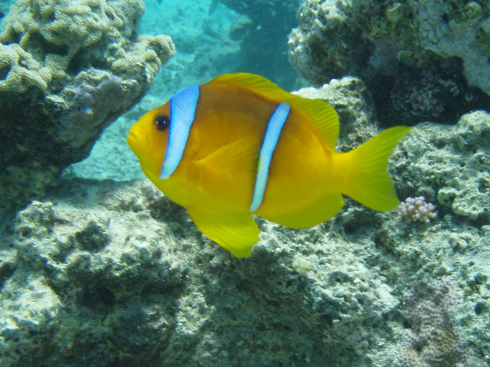 Clownfish (Amphiprion bicintus) in red sea.